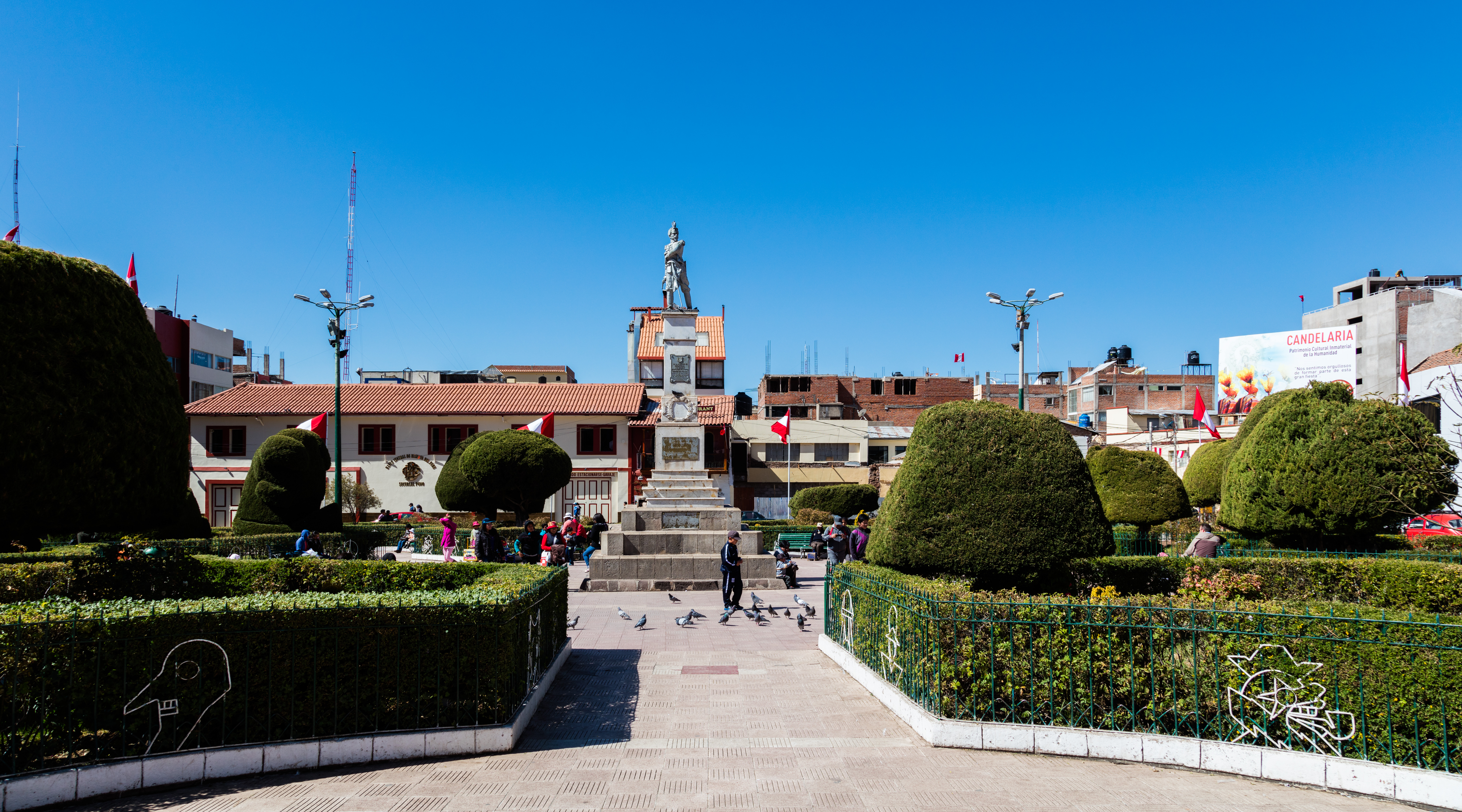 Plaza Republicana, Puno, Peru